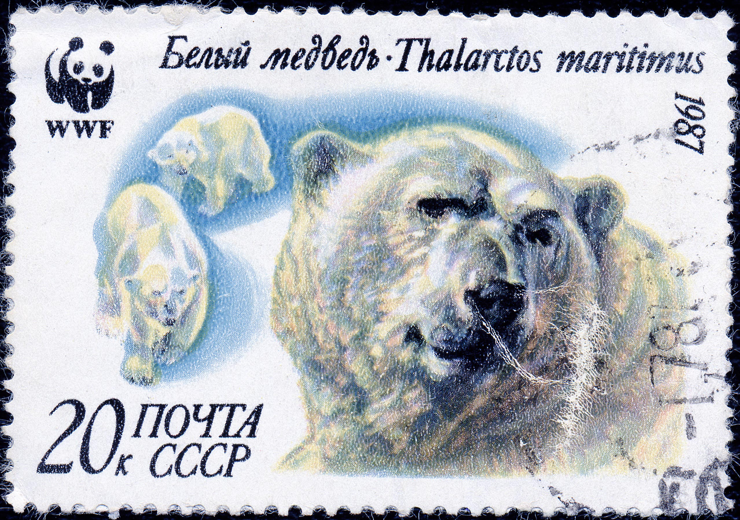 A USSR 1987 stamp. WWF. Polar bear.